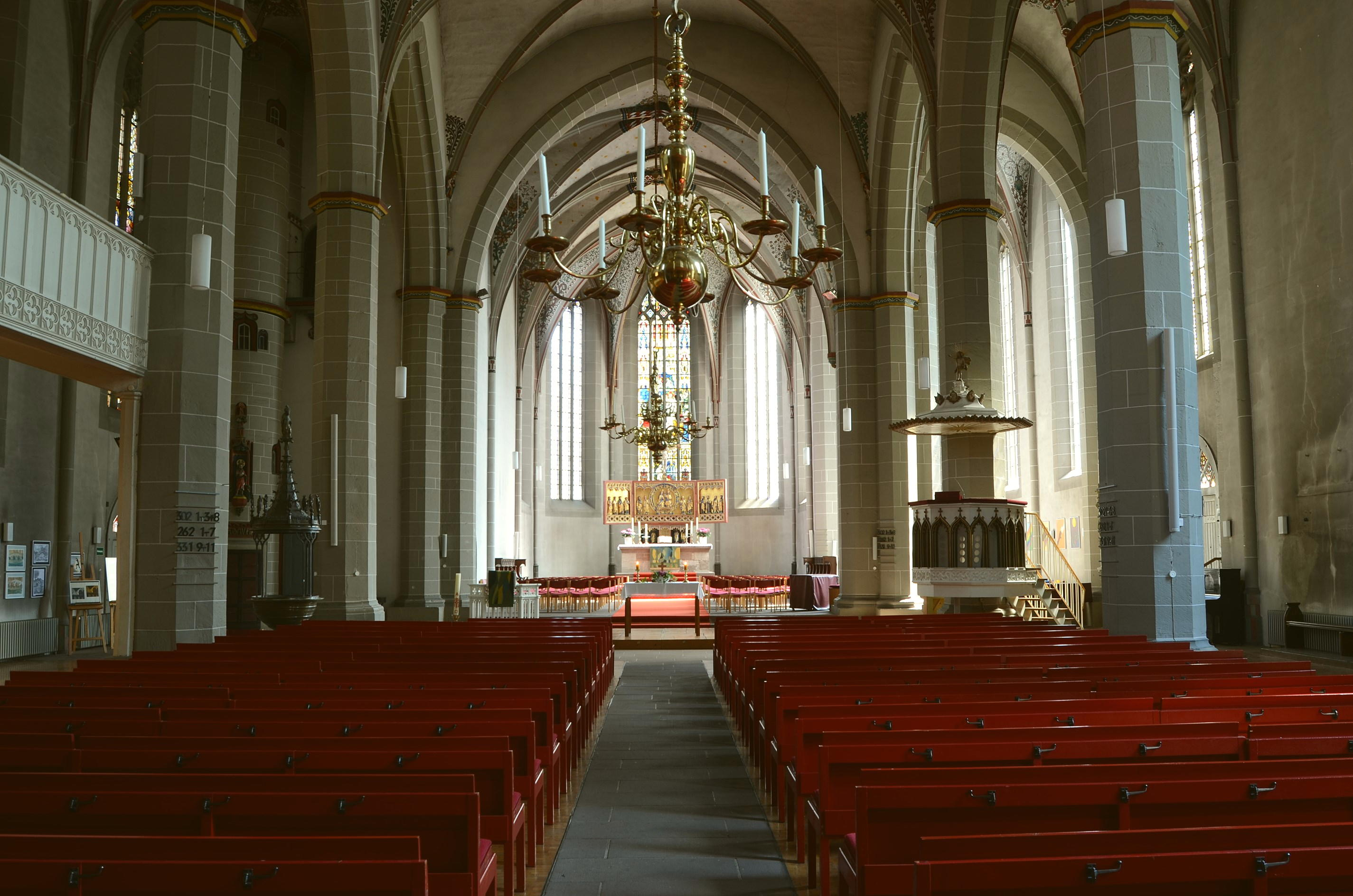 This is a photograph of an architectural monument.It is on the list of cultural monuments of Northeim This photograph was taken with a Nikon D7000 Northeim, Evangelisch-lutherische Kirche St. Sixti, Innenansicht